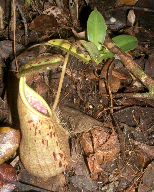 Nepenthes rhombicaulis? from Simanuk-manuk, Sumatra.